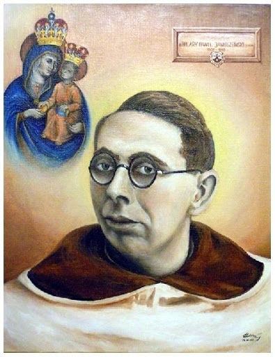 Blassed Hilary Januszewski, polish carmelite, priest and martyr